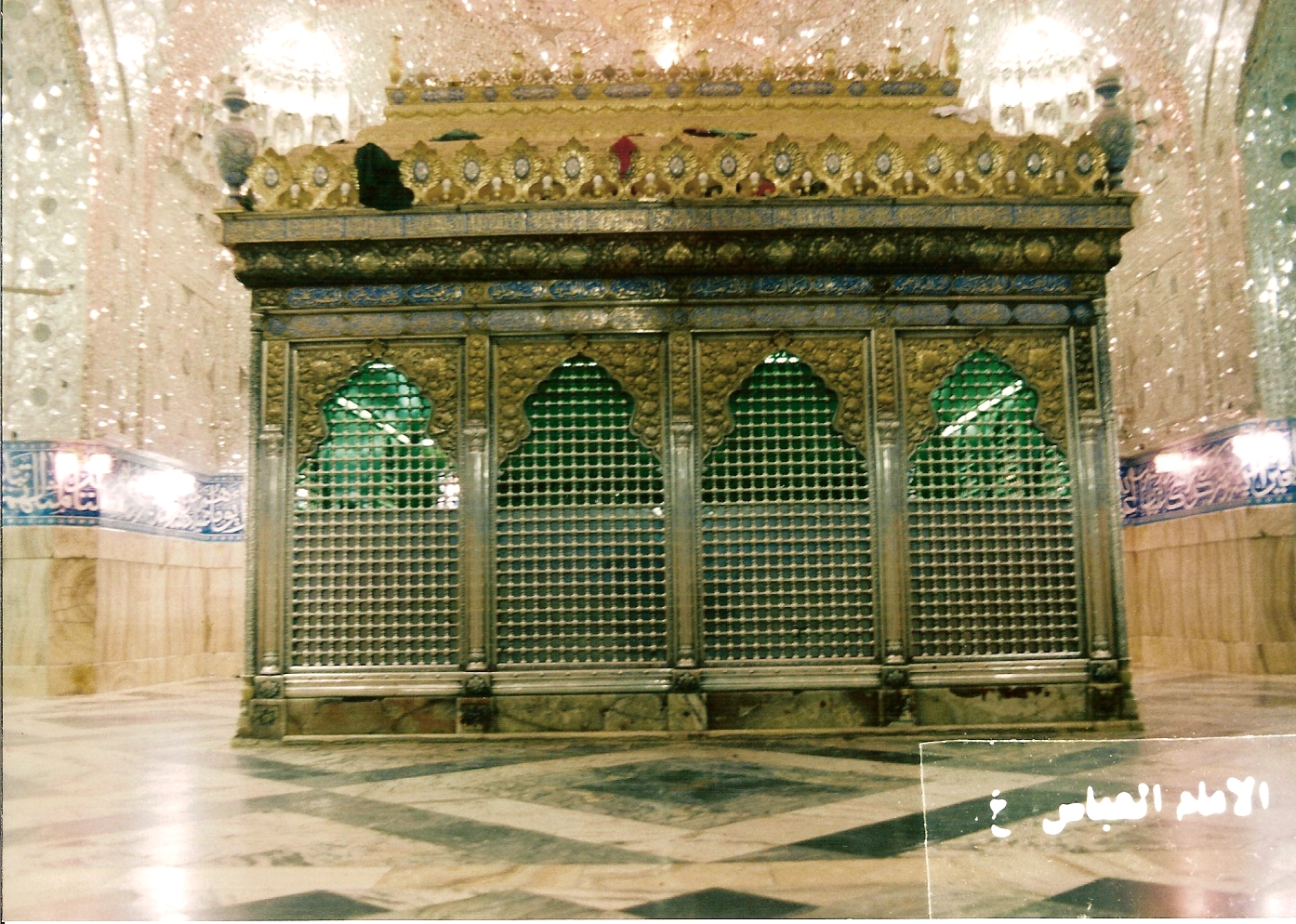 Al-Abbas Mosque - tomb of: Abbas ibn Ali, Karbala, Iraq.